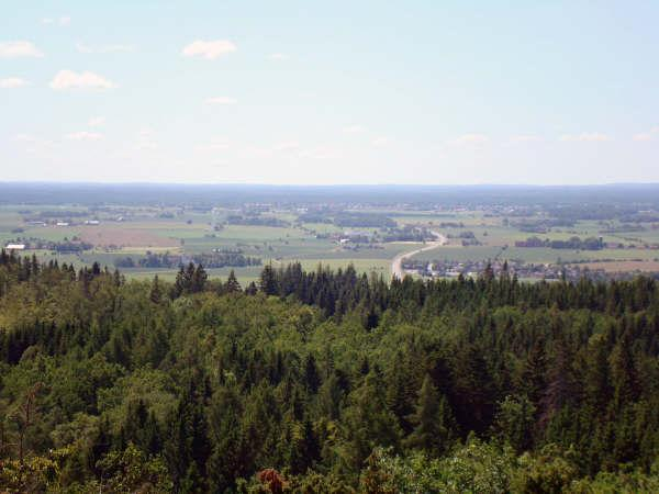 View from Omberg